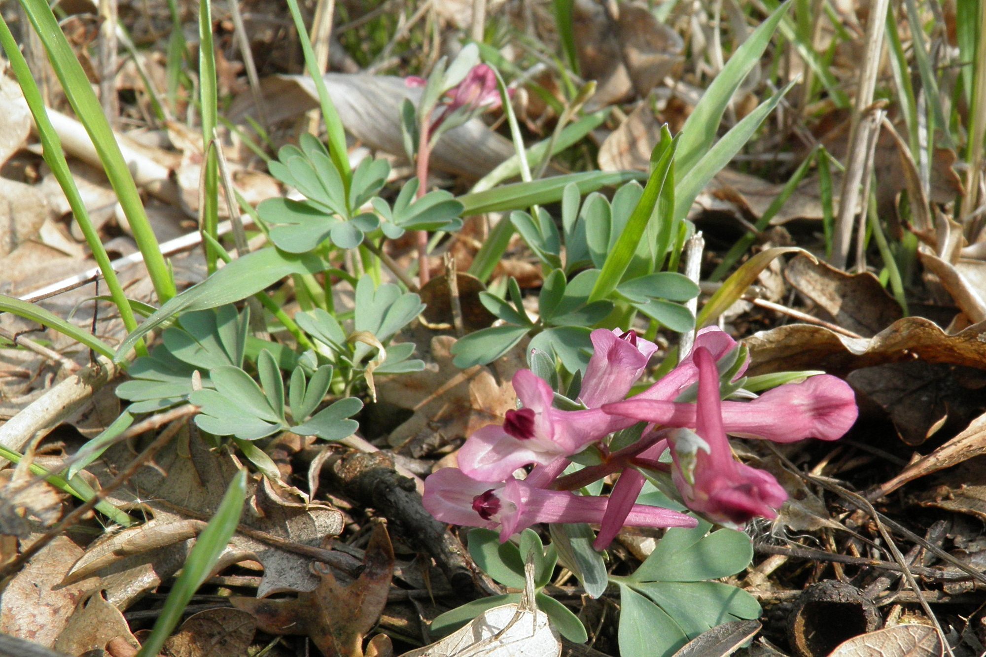 Corydalis paczoskii (Fumariaceae) (Solonoozerna section of the Black Sea Biosphere Reserve)